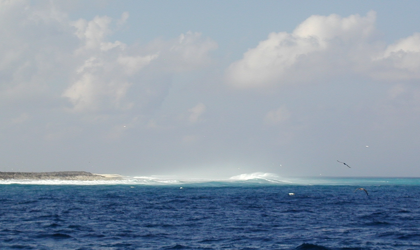 Surf at Clipperton Island in the Pacific Ocean